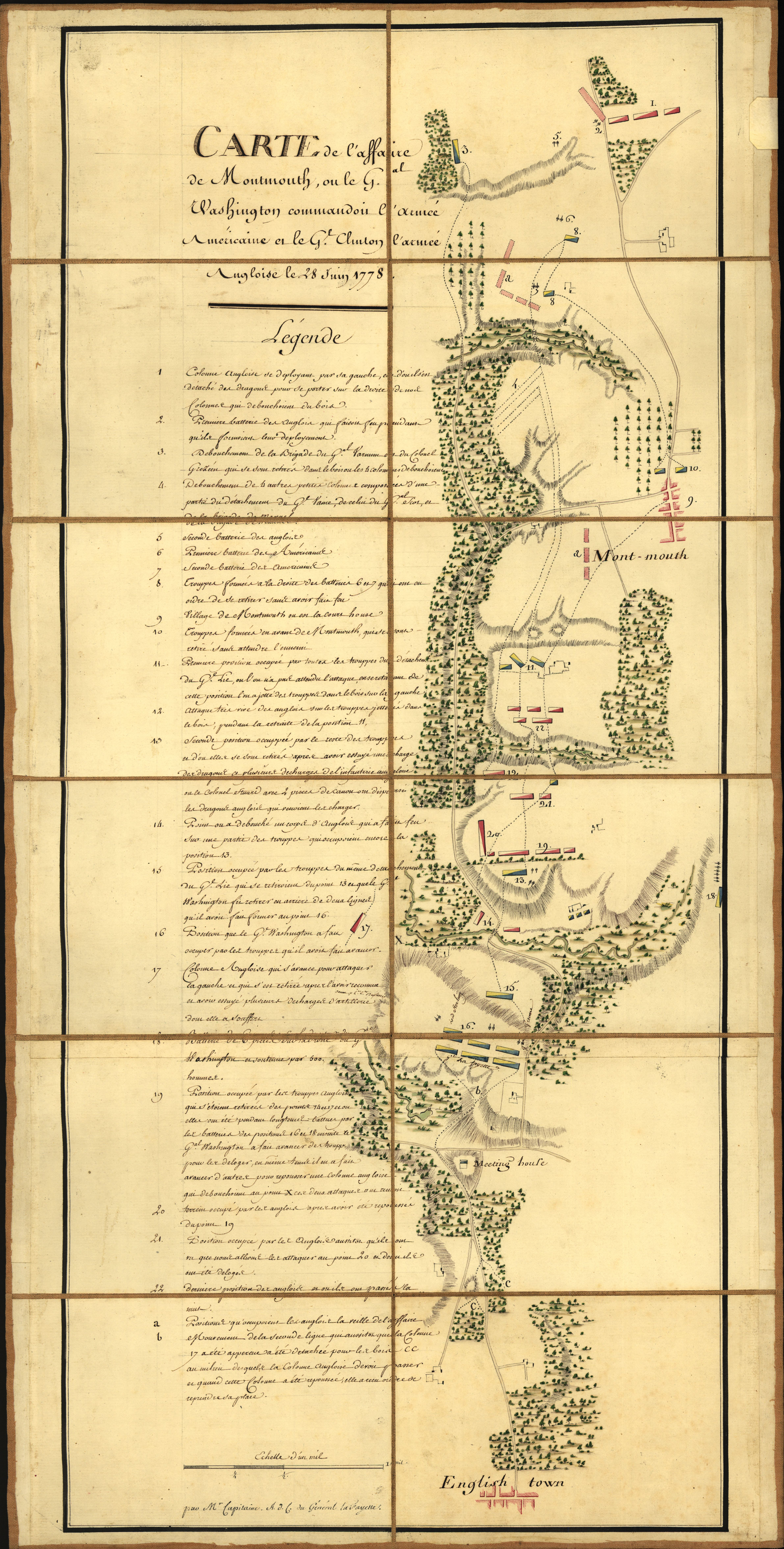 Map of the Battle of Monmouth Courthouse, N.J.